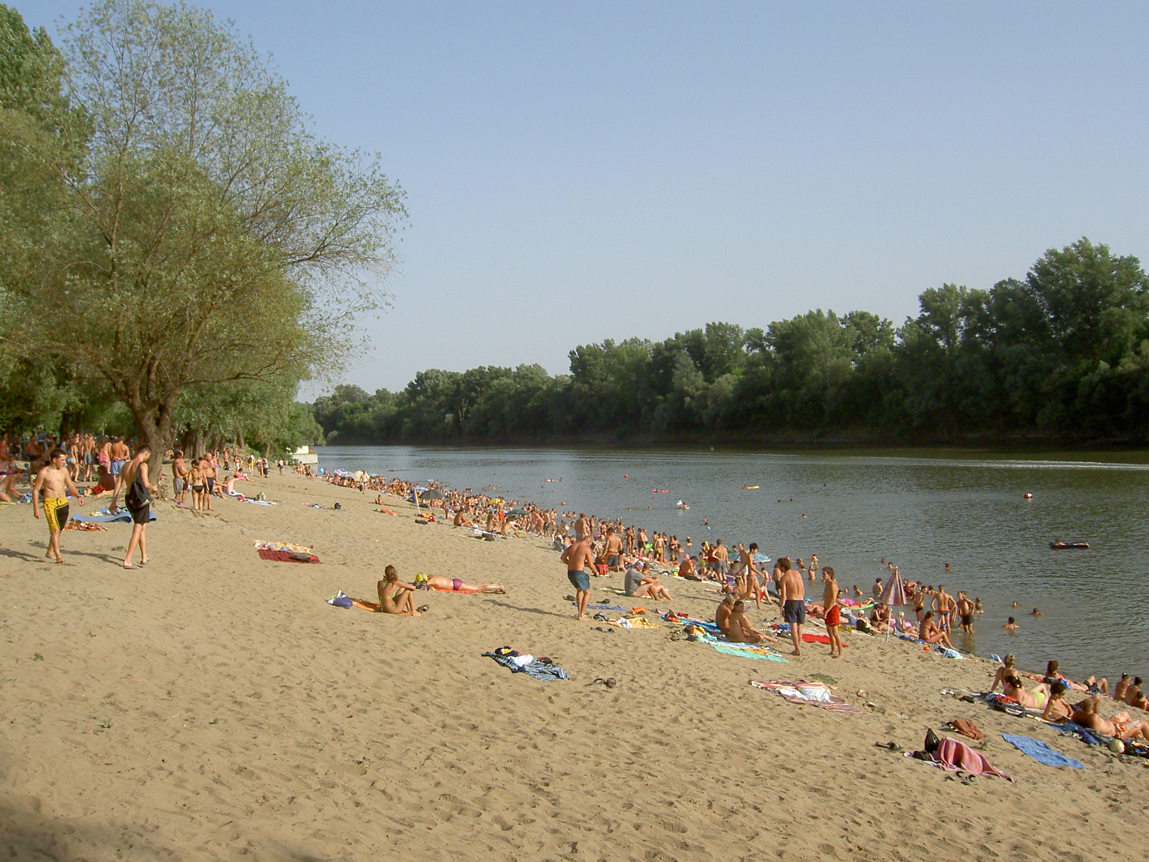 The beach in Mindszent